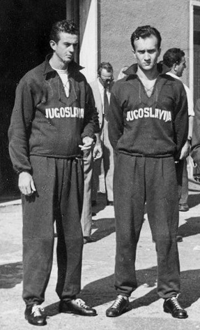 Left-right: Petar Šegvić and Mate Trojanović at the 1952 Olympics